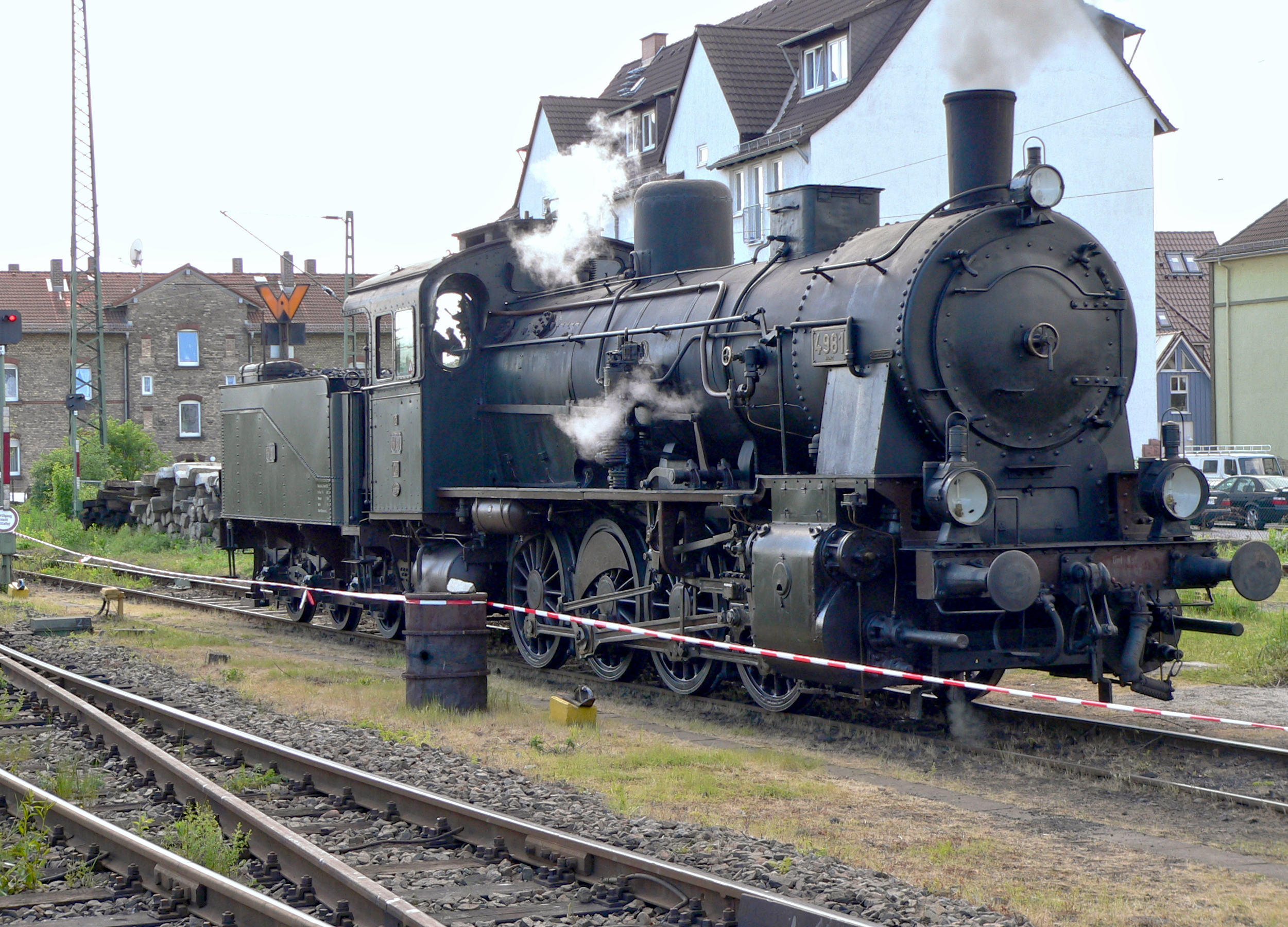 Steam locomotive Prussian class G8 in Kranichstein, Germany. 1916 exported to Ottoman Empire for Baghdad railway, later received TCDD number 44 079. In 1987 returned to Germany. This locomotive bears its original historical road number 4981.